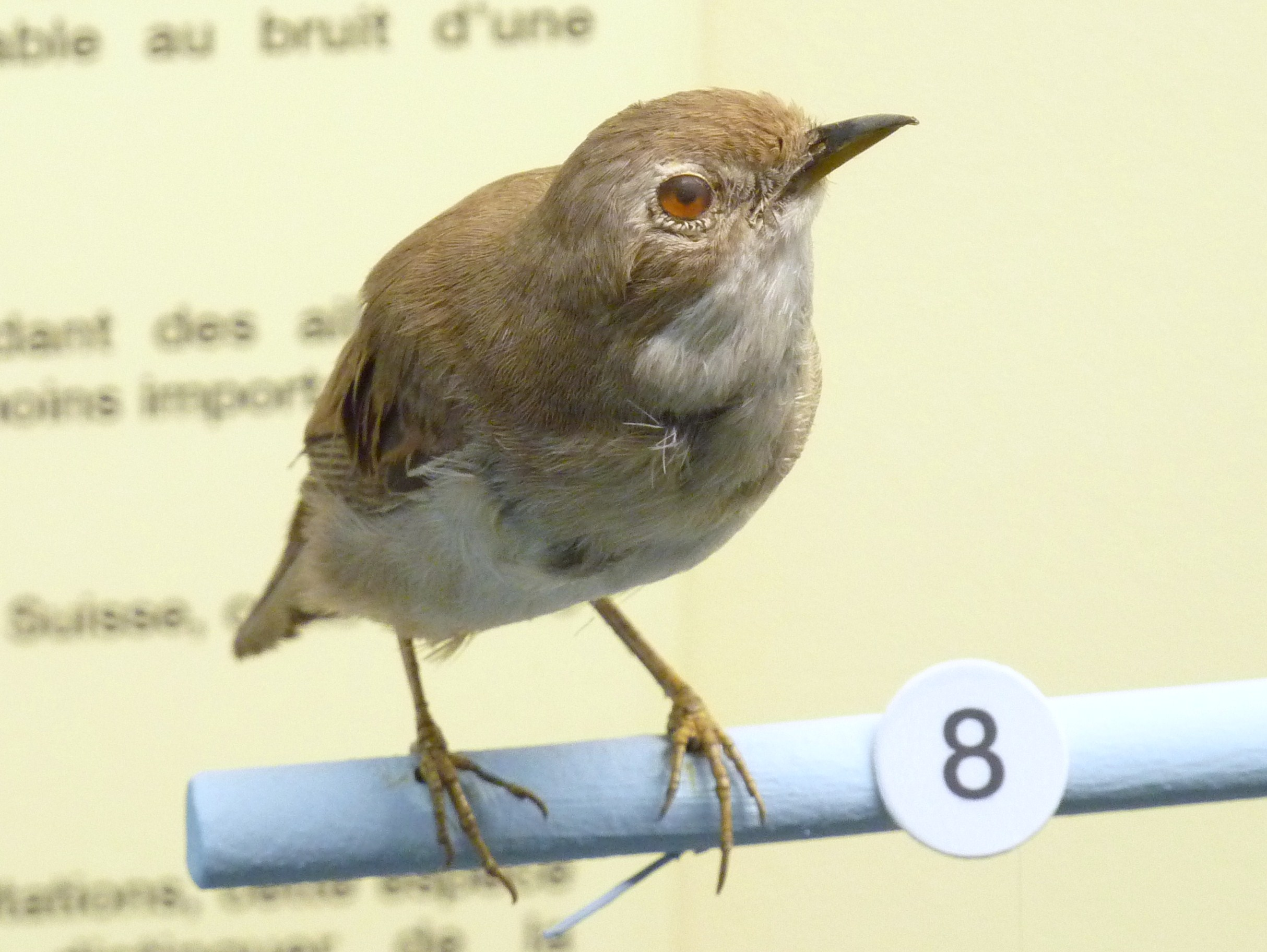 Common Whitethroat (Sylvia communis), male